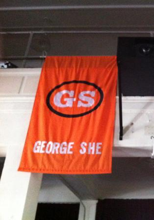 George She House Banner